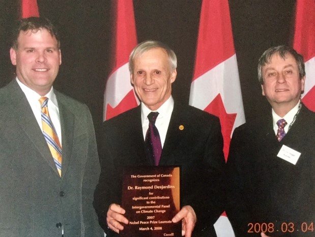 In 2007, Dr. Raymond Desjardins was co-recipient of the Nobel Peace Prize for his contribution to the Intergovernmental Panel on Climate Change (IPCC). This photo shows an Award given to him by John Baird, to the left, from the Canadian Governement to celebrate this occasion.